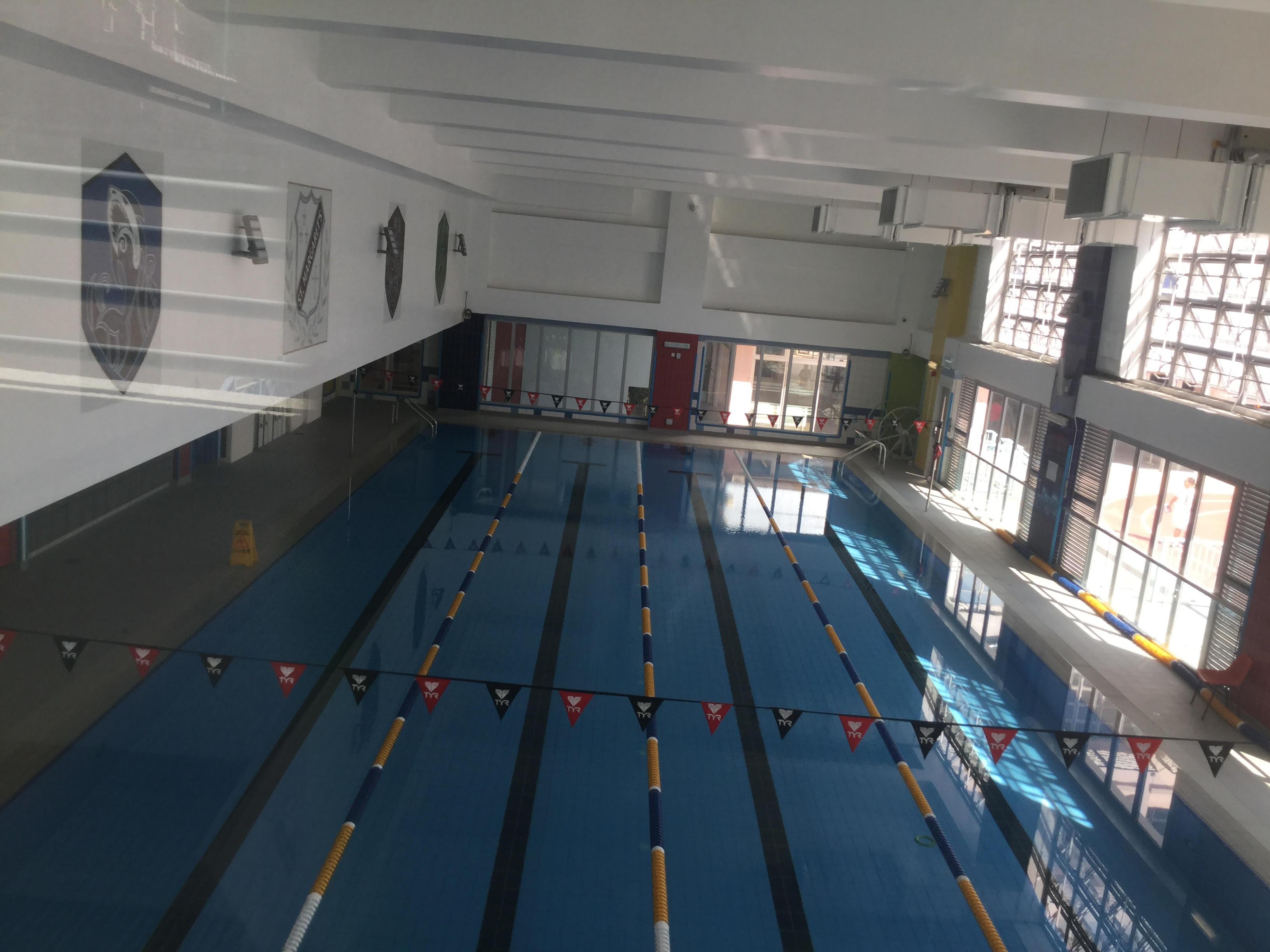 Swimming pool with 3 logos. Don't mind the Creative Commons, this is a Public Domain.